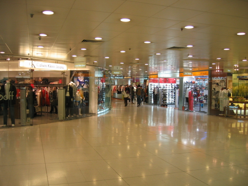 New Town Plaza Level 4 Trendy Cycle in 2005